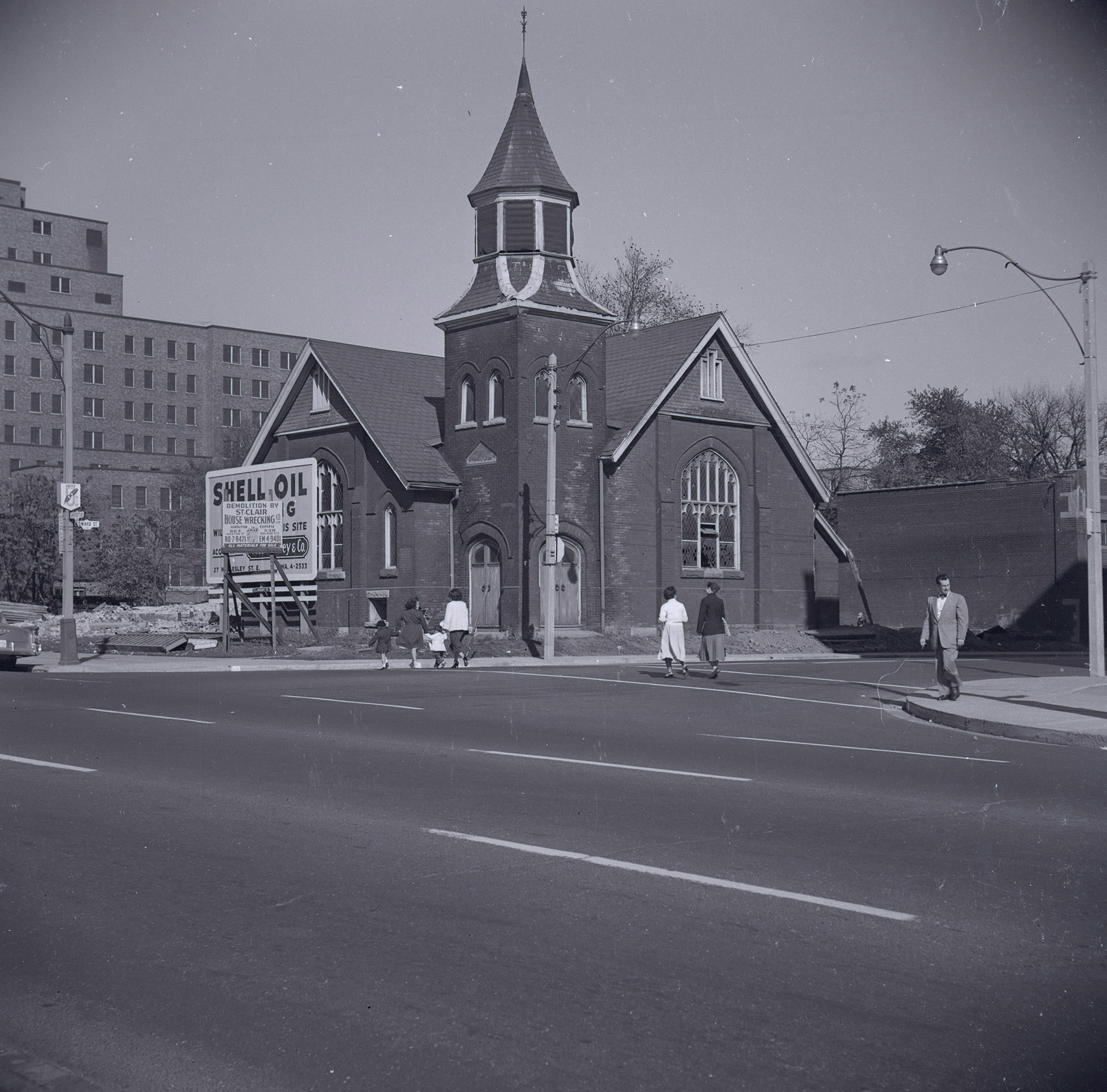 Church after being sold to Shell Oil Company. Also shows demolition sign.